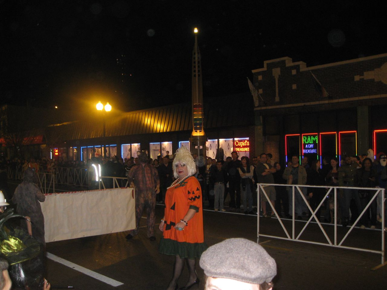 Miss Foozie appears at the Boystown Halloween Parade in Chicago.[1]